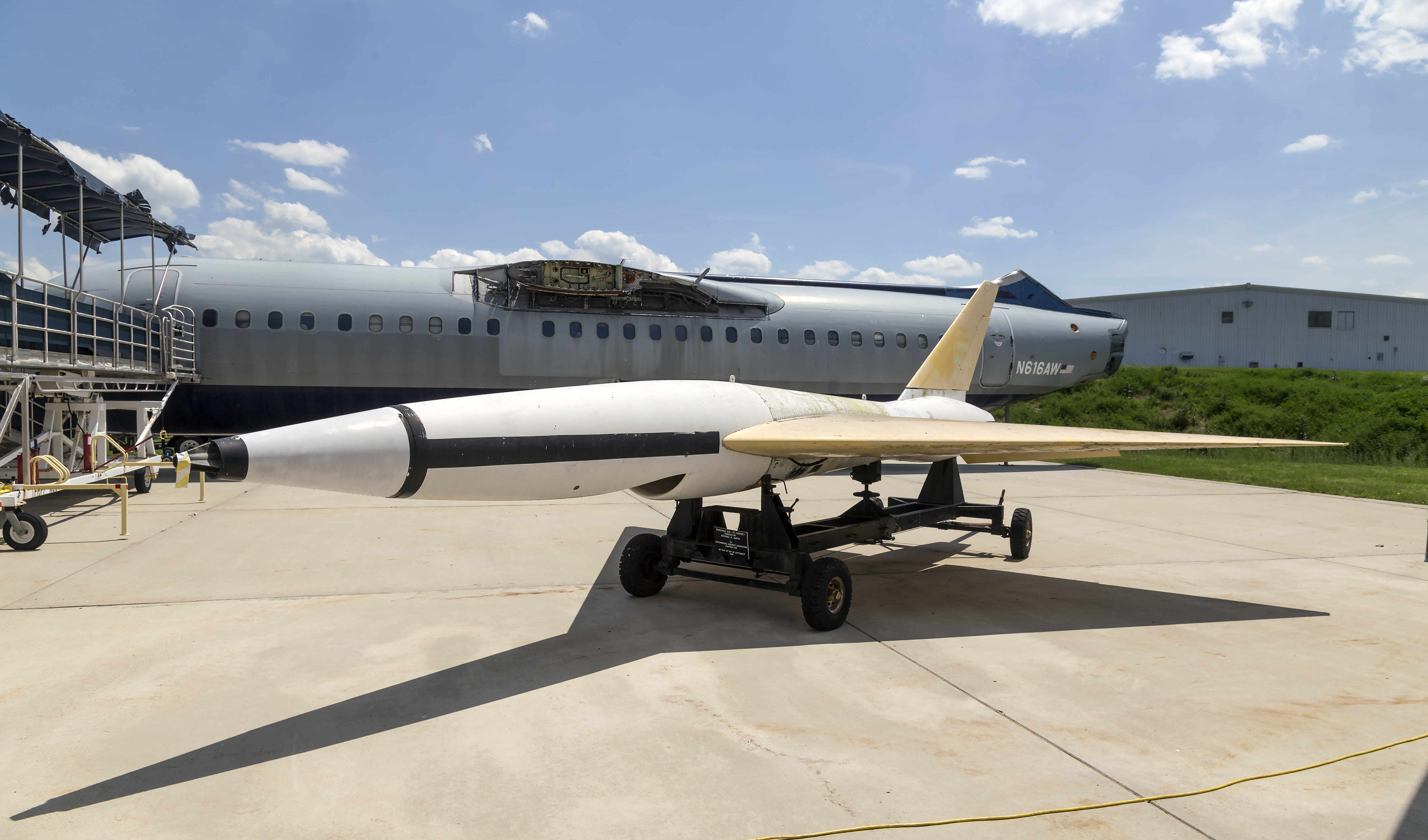 Fairchild SM-73 Bull Goose decoy missile at Hagerstown, Maryland, USA